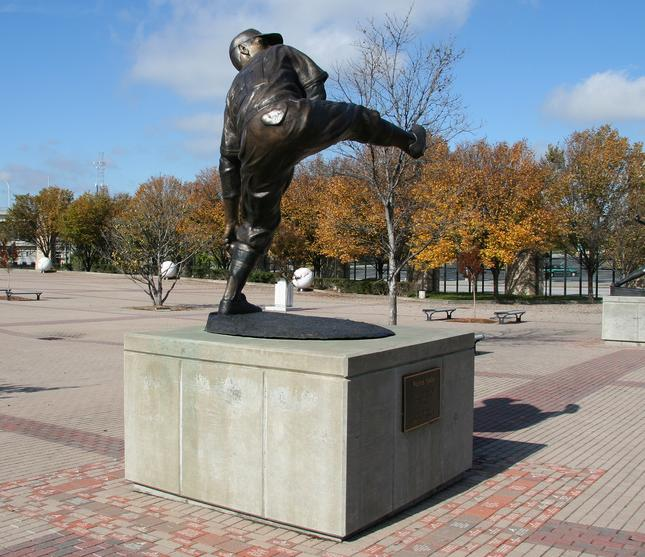 Statue of Warren Spahn at Turner Field